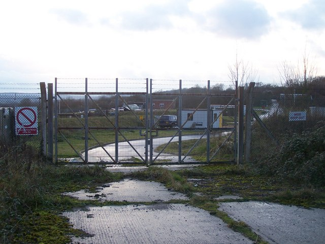 Entrance to Lodge Hill Camp Firing Range MOD Camp on Lodge Hill Lane. various test/training items used planes,houses and others. Part of the Defence Explosive Ordnance Disposal School, here since 1966.